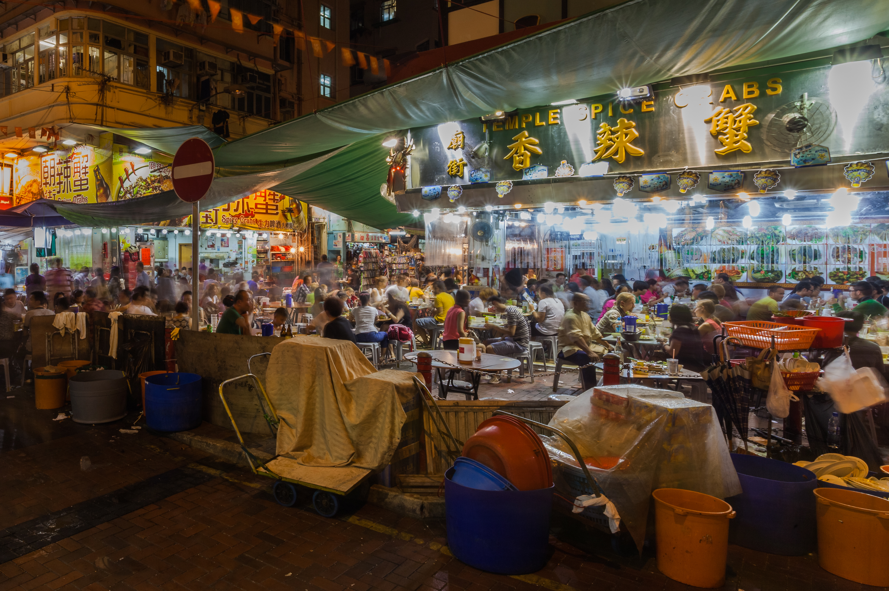 Market in Temple St., Hong Kong